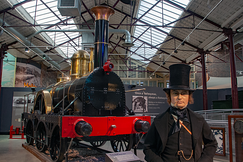 Brunel and North Star replica broad gauge 2-2-2 loco at the STEAM museum in Swindon